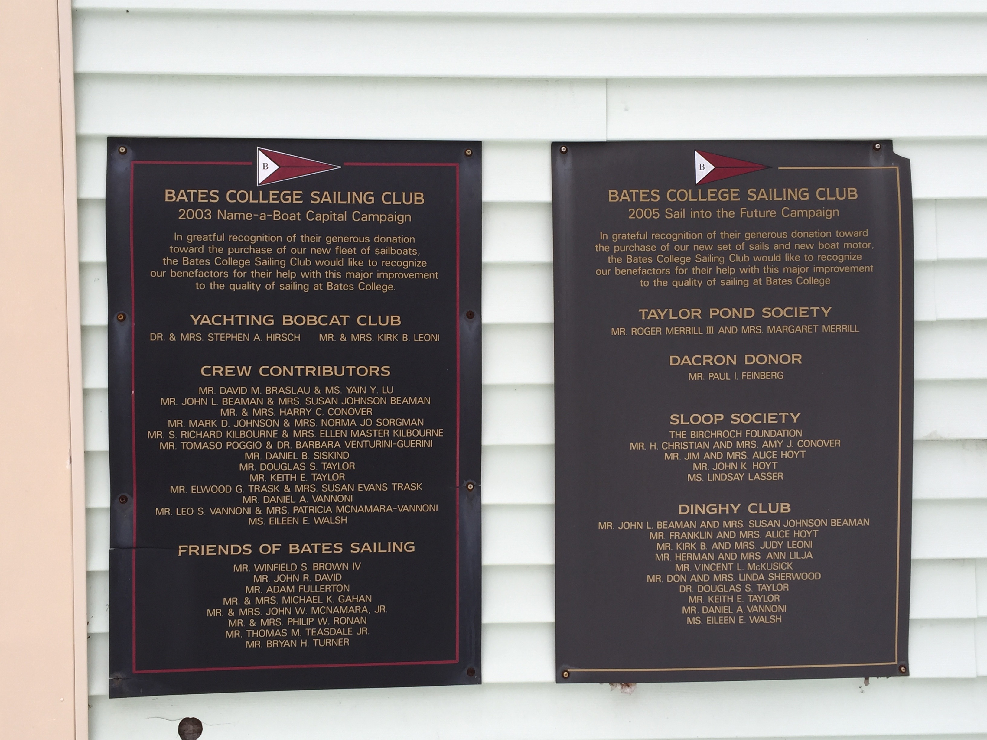 Sailing placard on the Bates College Sailing Team's Boathouse, known as "The Boathouse"